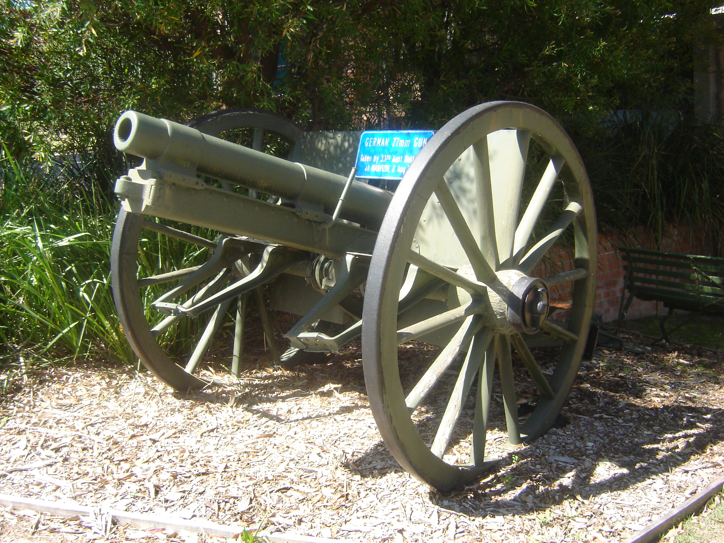 A German M96nA artillery piece, captured by Australian troops on August 8, 1918, during the Battle of Amiens (the plaque should properly read "Warfusée", not "Warfuse"). Currently on display at a war veterans' home in Collaroy Plateau, Sydney, Australia.